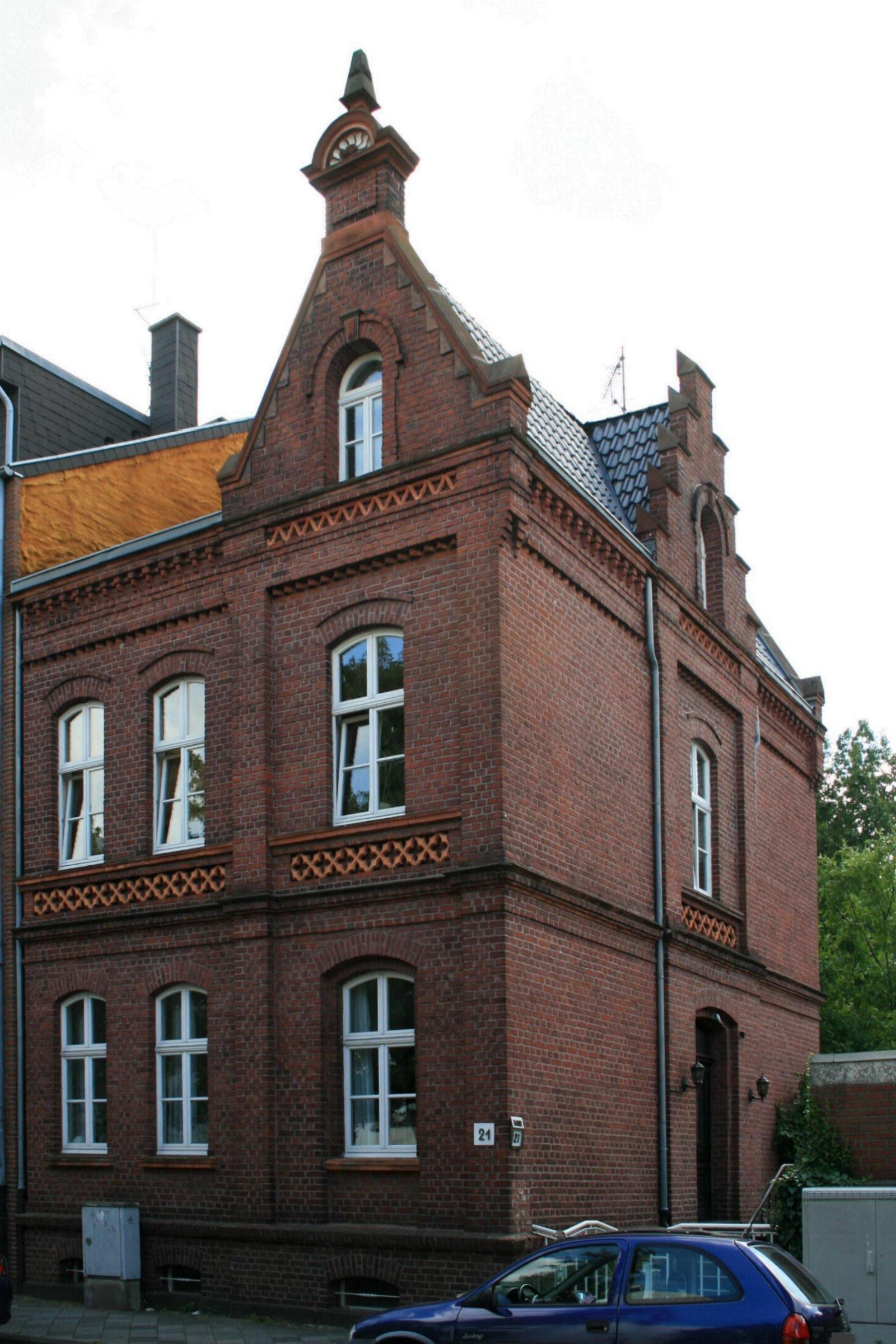 Cultural heritage monument No. A 022 in Mönchengladbach